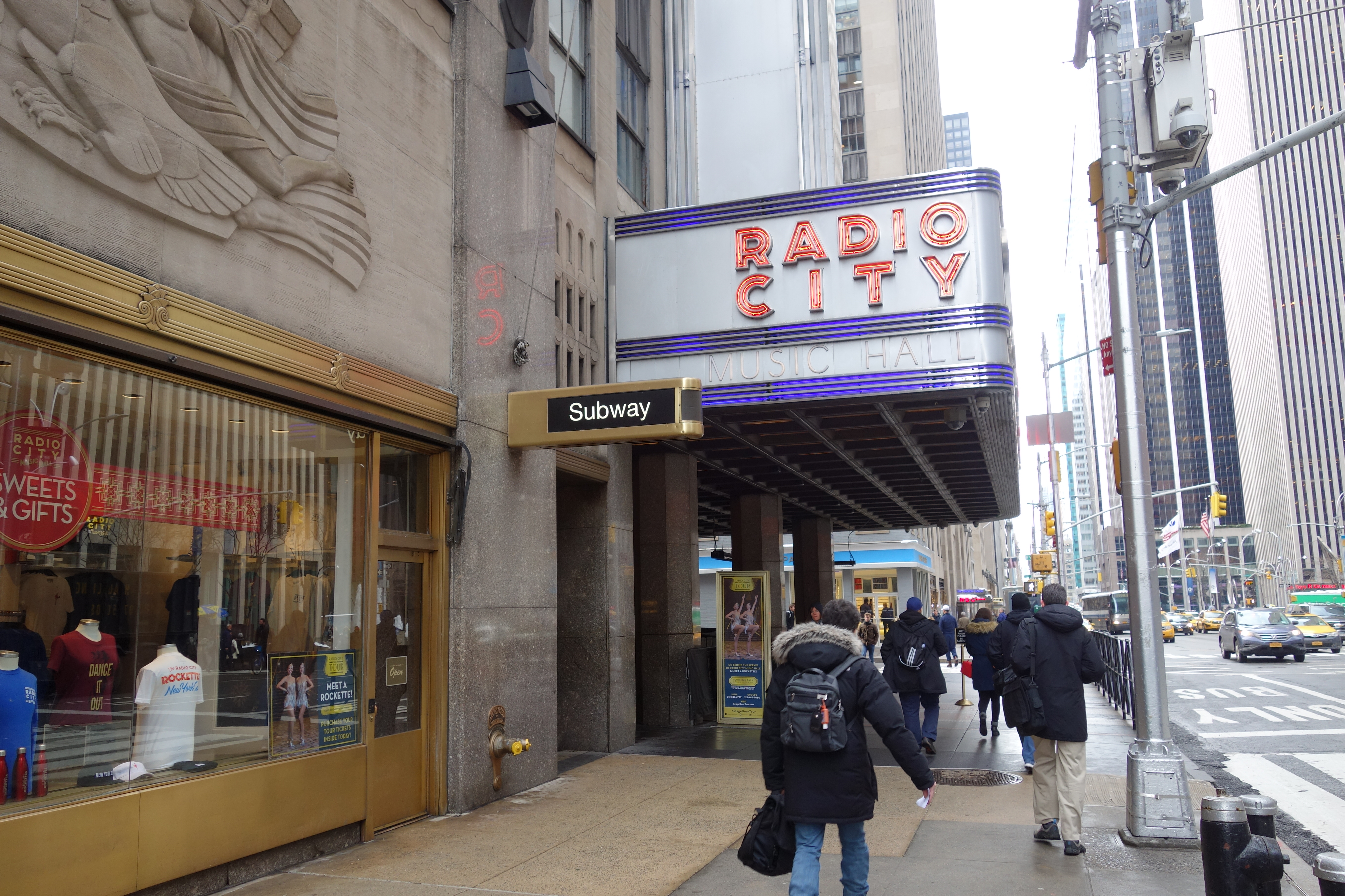 Radio City Music Hall, and an entrance to the 47th–50th Streets IND station, at Sixth Avenue and West 50th Street in Rockefeller Center, Midtown Manhattan.